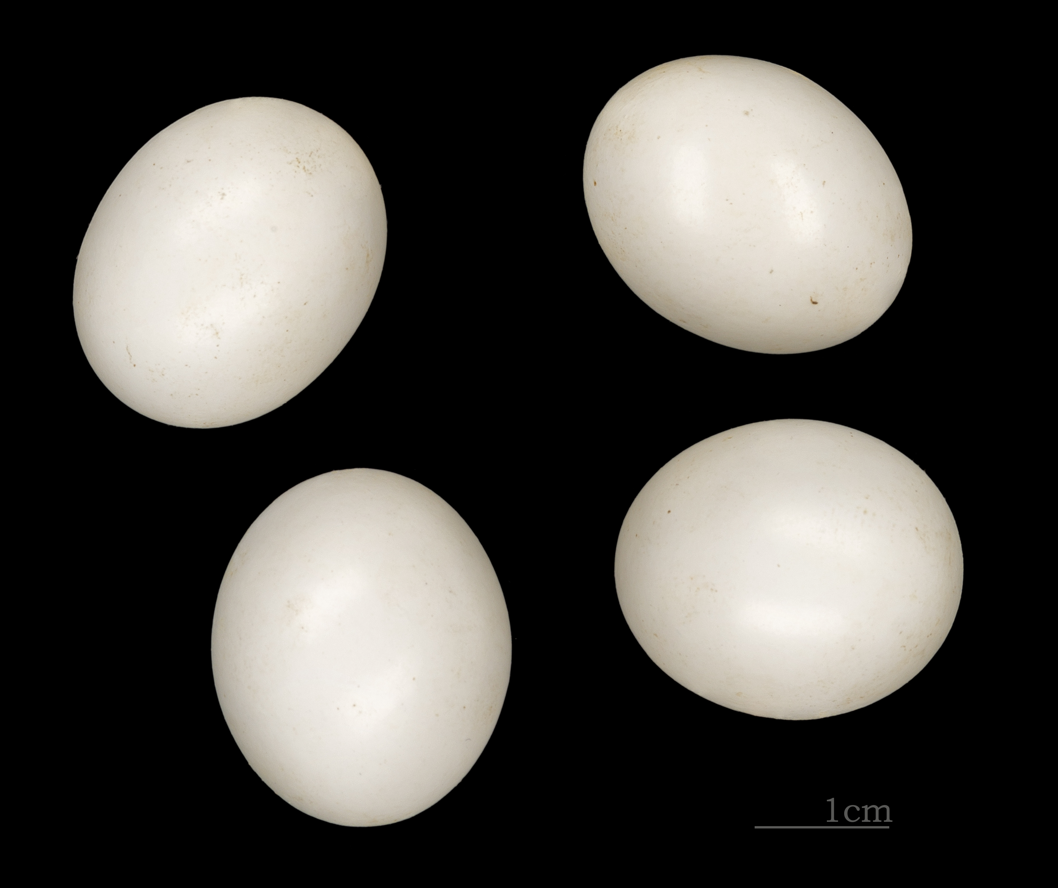 Egg of Blue-cheeked Bee-eater. Collection of Jacques Perrin de Brichambaut.